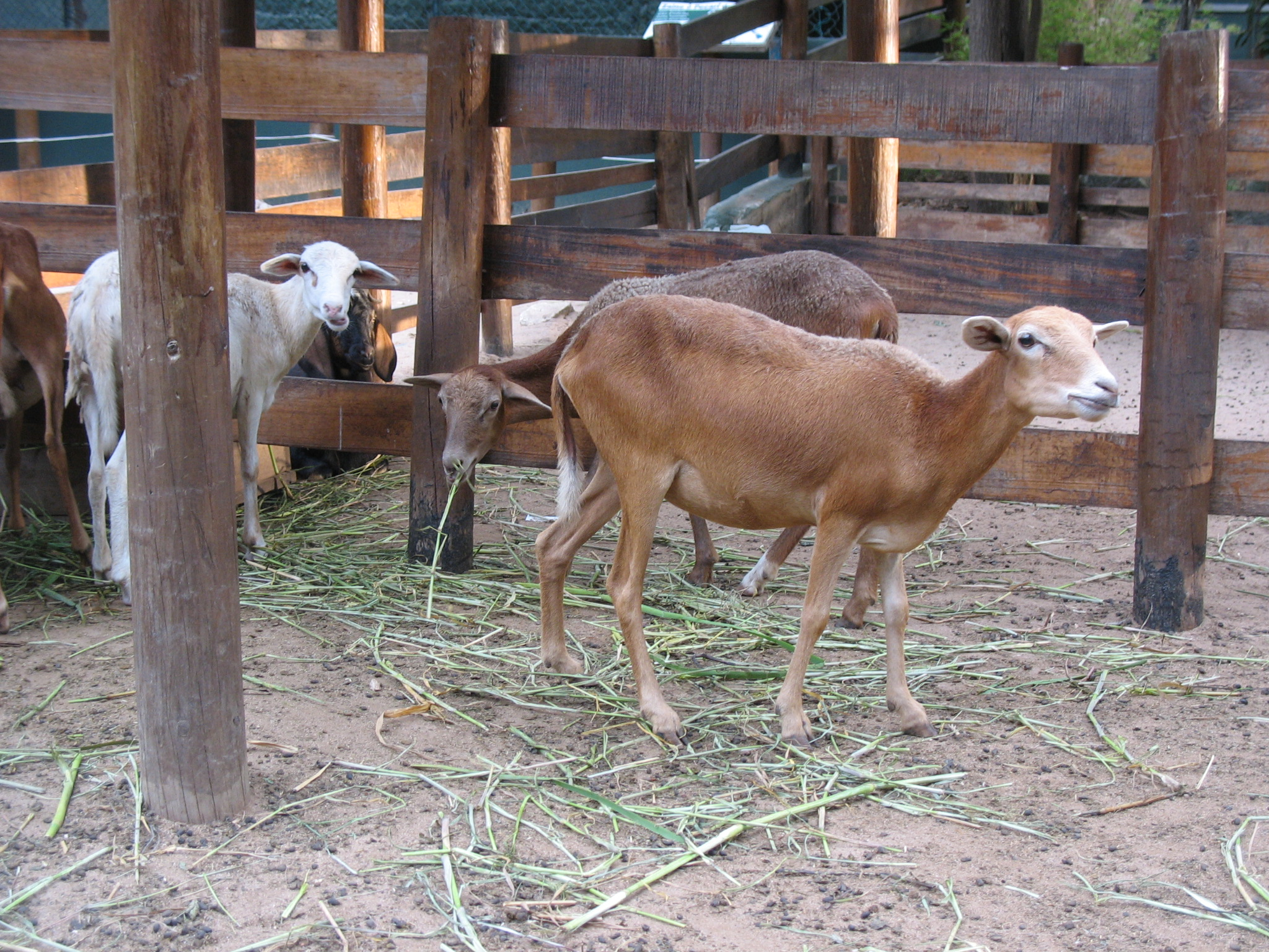 Barranquilla Zoológico Goats